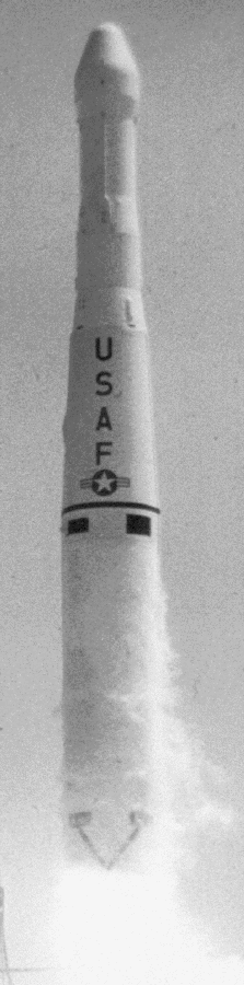 Launch of Thor Able Star rocket with satellites: Transit 5BN-3 and Transit 5E-4.